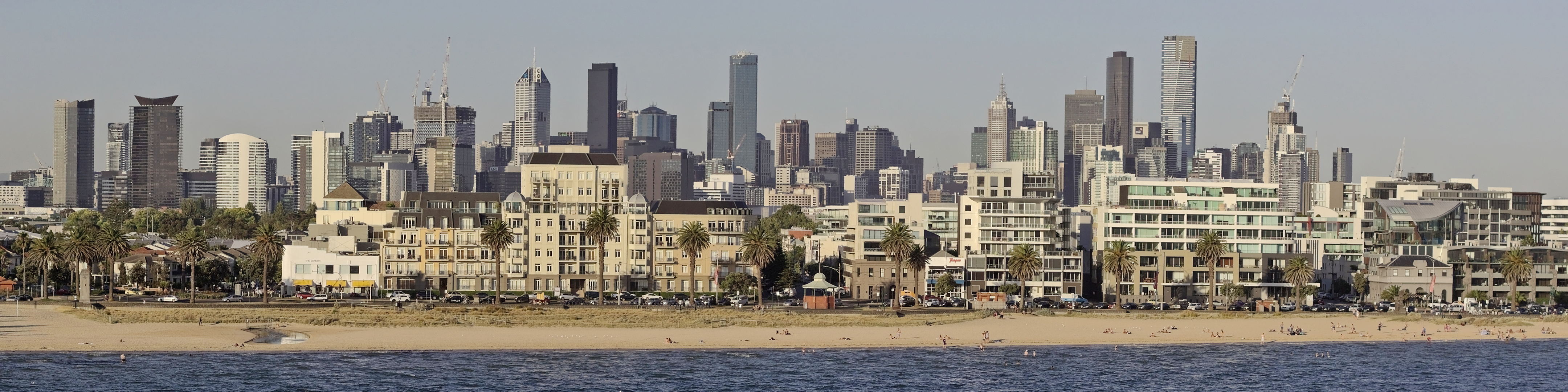 A panorama of the Melbourne CBD taken from the deck of the Spirit of Tasmania. Cropped version.